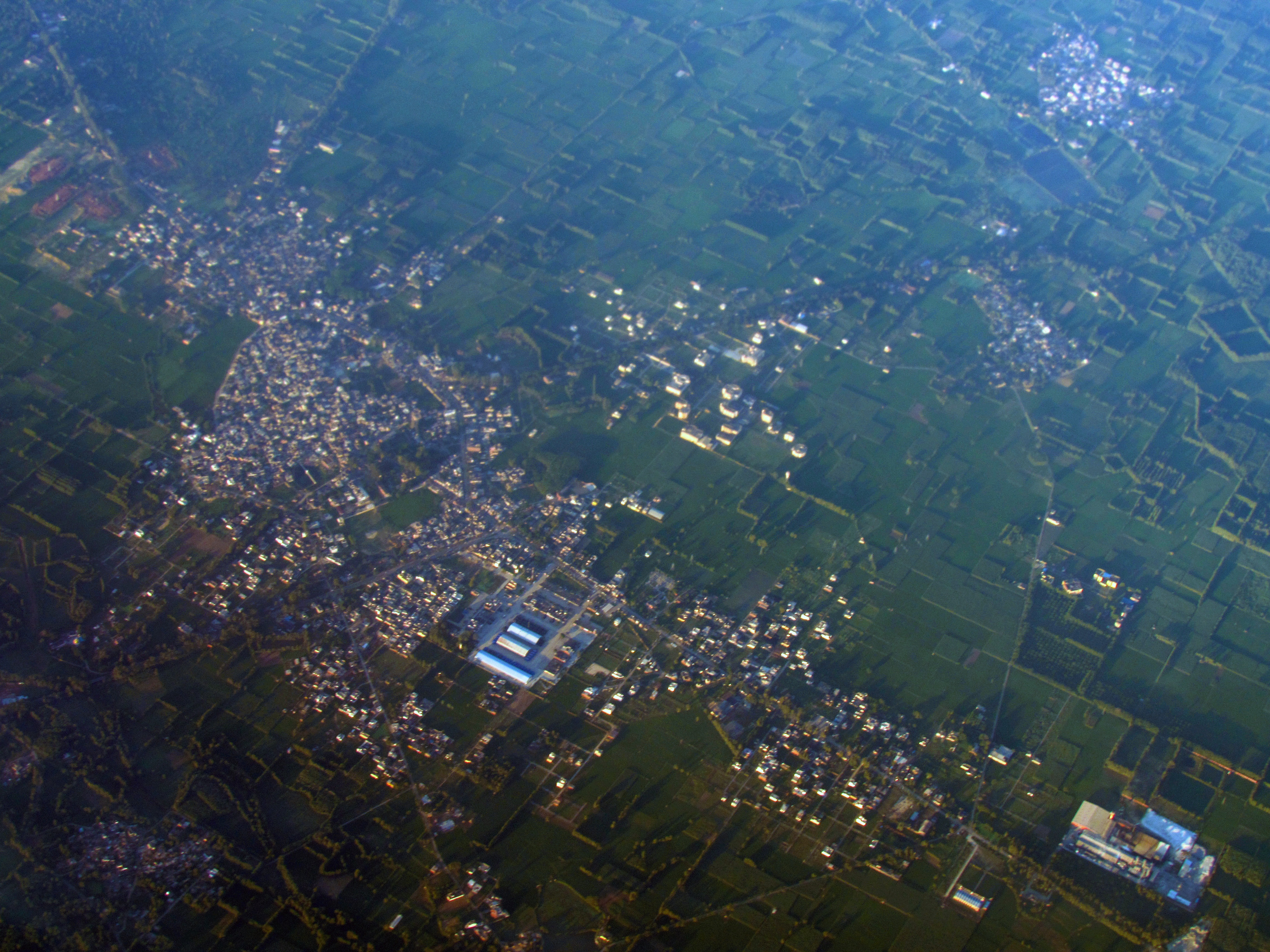 Aerial photograph of Bilaspur, Haryana, India.